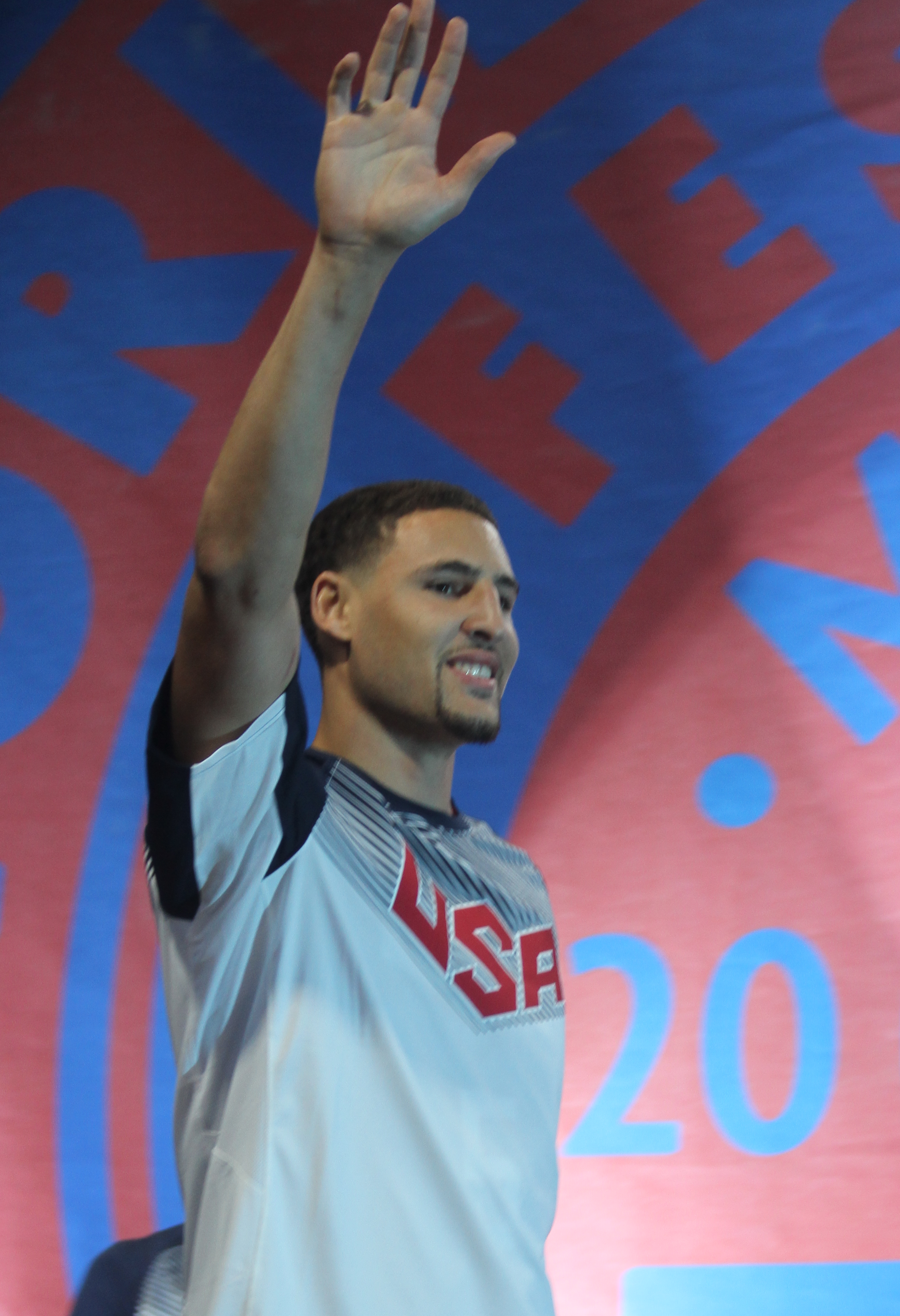 Klay Thompson at 2014 World Basketball Festival at 63rd Street Beach in Chicago